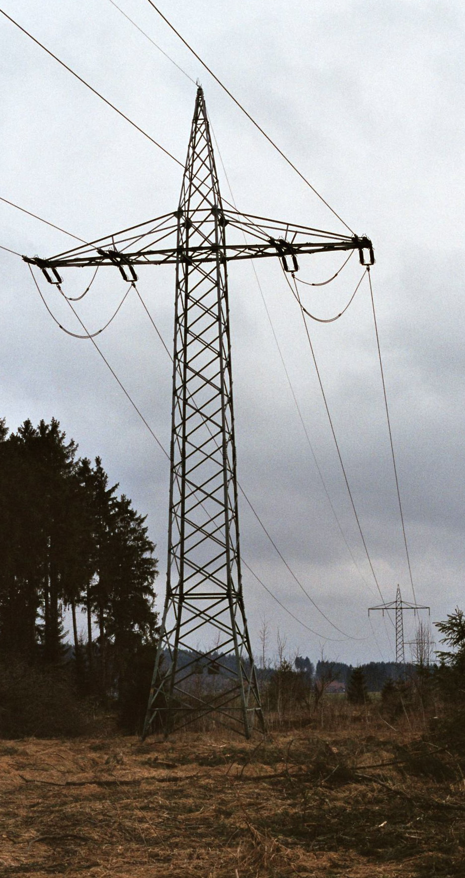 Twisting or Transposing Pylon of traction current line near Bartholomä in Germany